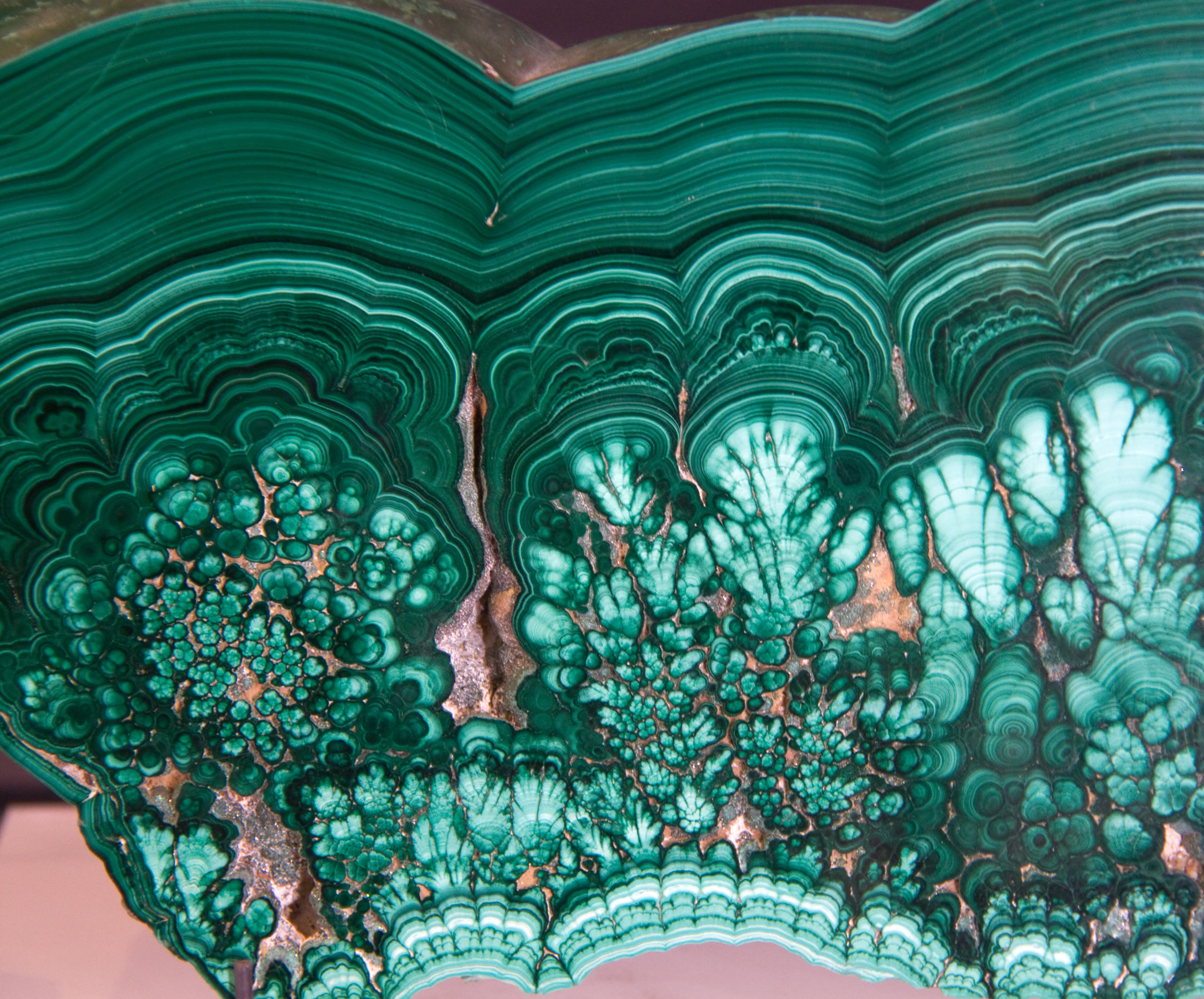 Malachite, Katanga, DR Congo. Detail; size 24 x 15 x 10 cm. Part of the Rocks and Minerals display in the Royal Ontario Museum Toronto